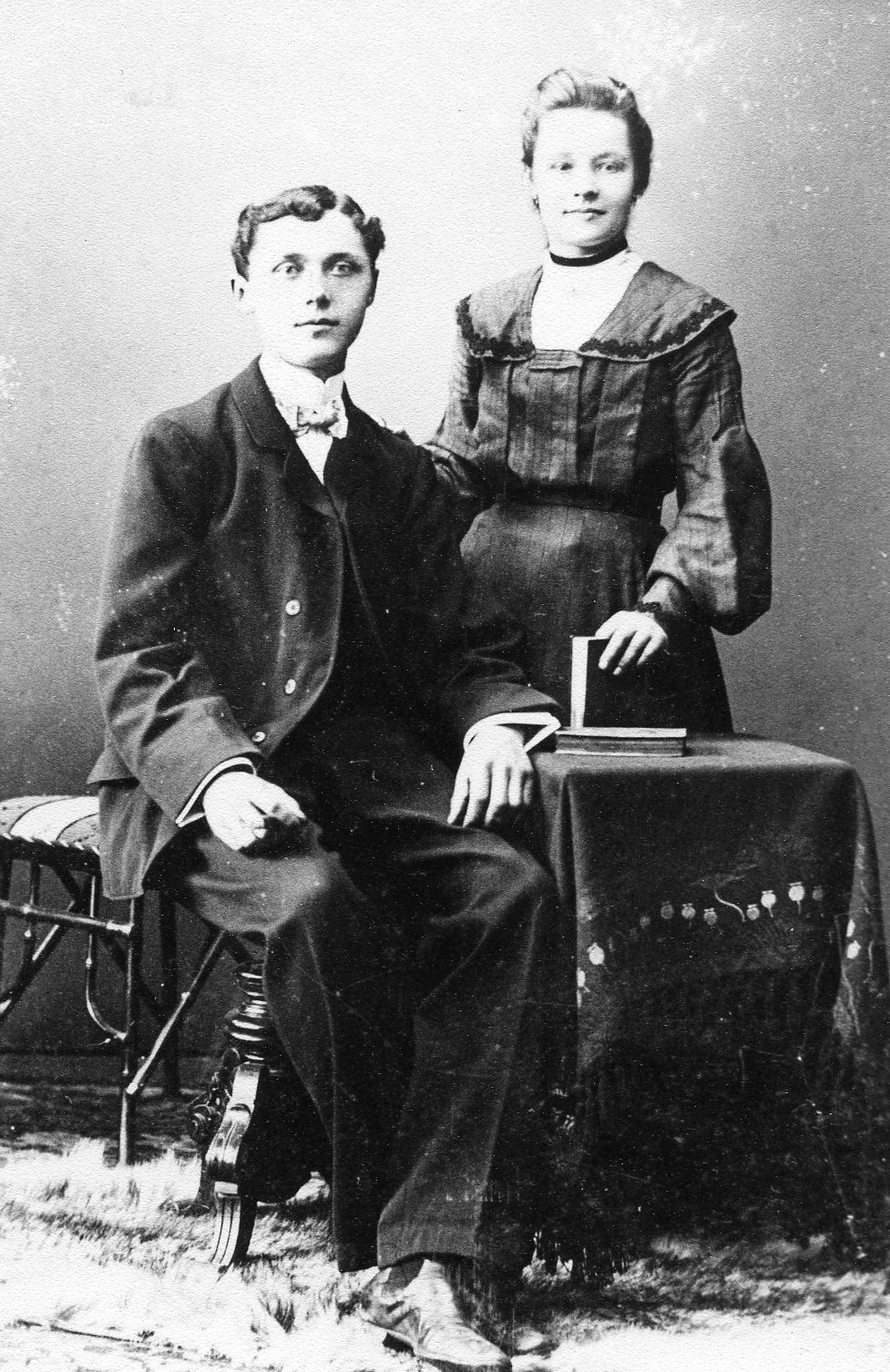 wedding photo of Johann and Katharina Geusendam, Bremen 1910